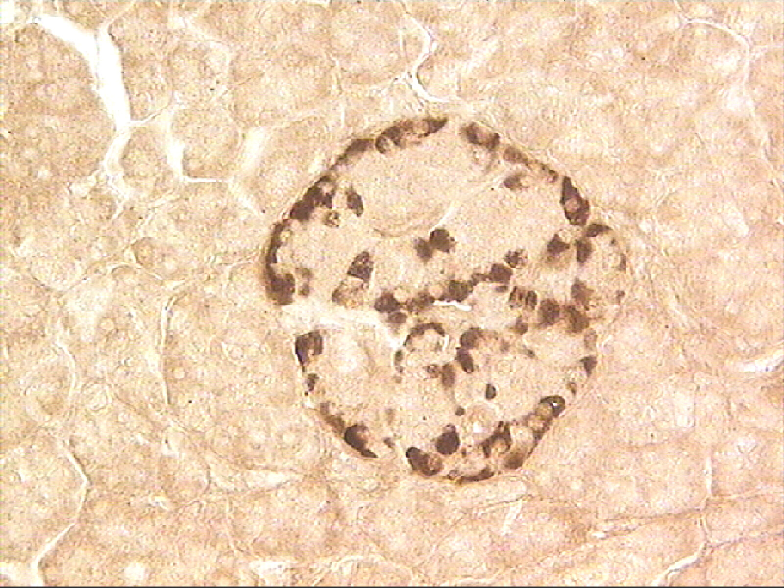 Streptavidin-biotin immunohistochemical technique, antibody to glucagon Generated in Laboratory of nervous system development, FSBI Human Morphology SRI RAMS, Moscow